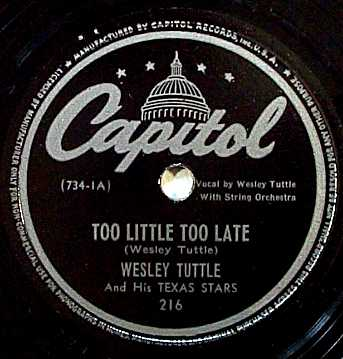 Too Little Too Late by Wesley Tuttle, Capitol 1945.